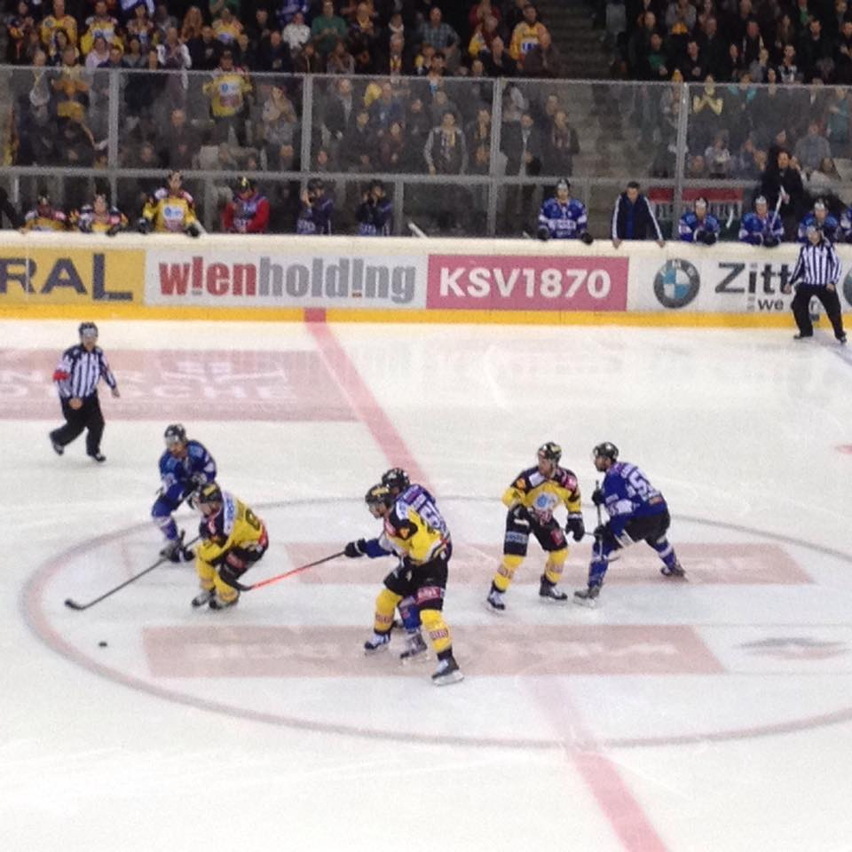 Capitals-Alba Volan 2-1, play-off Game4 , EBEL 2014-15